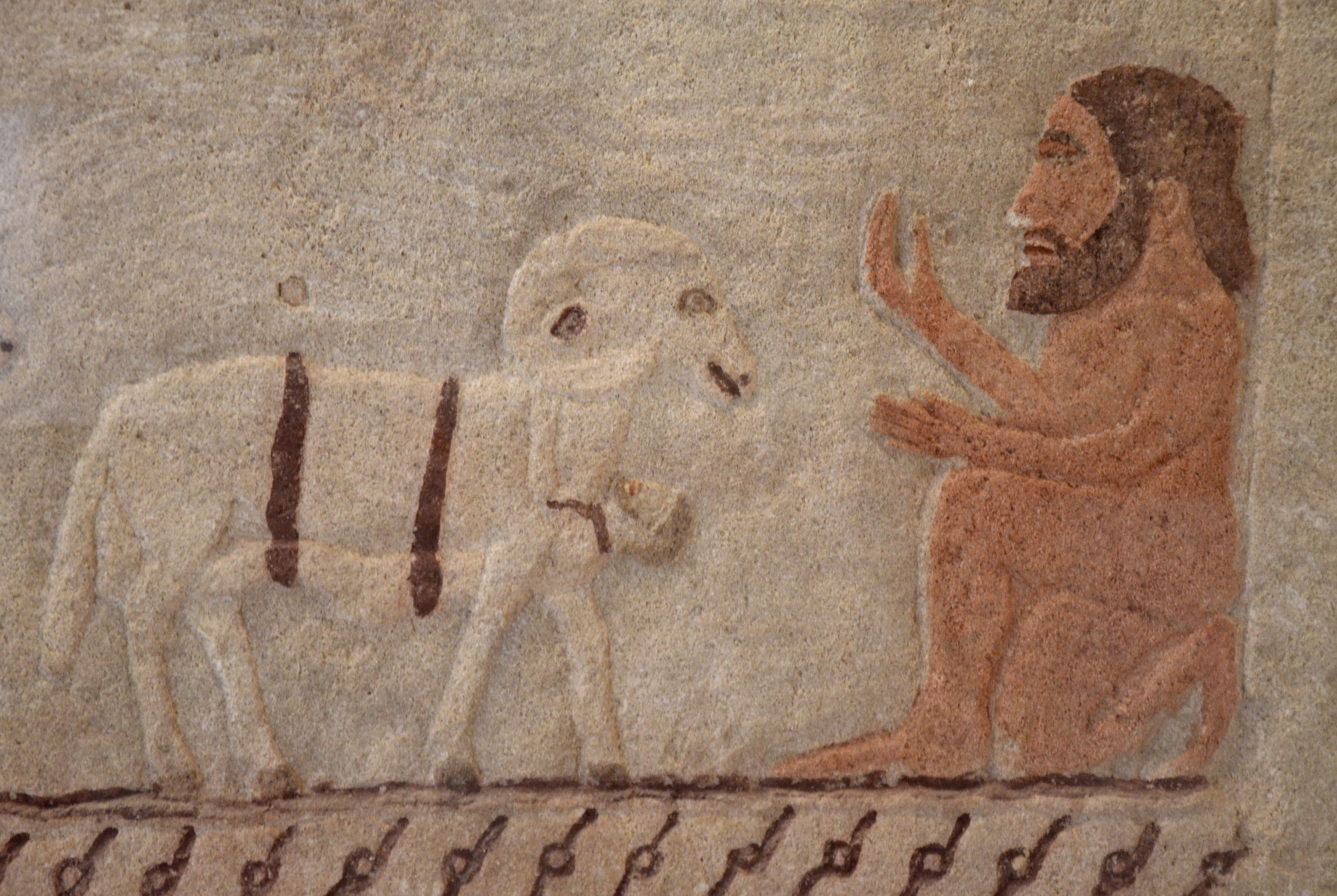 Limestone sarcophagus painted with Homeric scenes, unearthed in 2006 in a tomb near the village of Kouklia probably belonging to an ancient warrior, 1st half of 5th century BC, Palaepaphos Museum, Cyprus